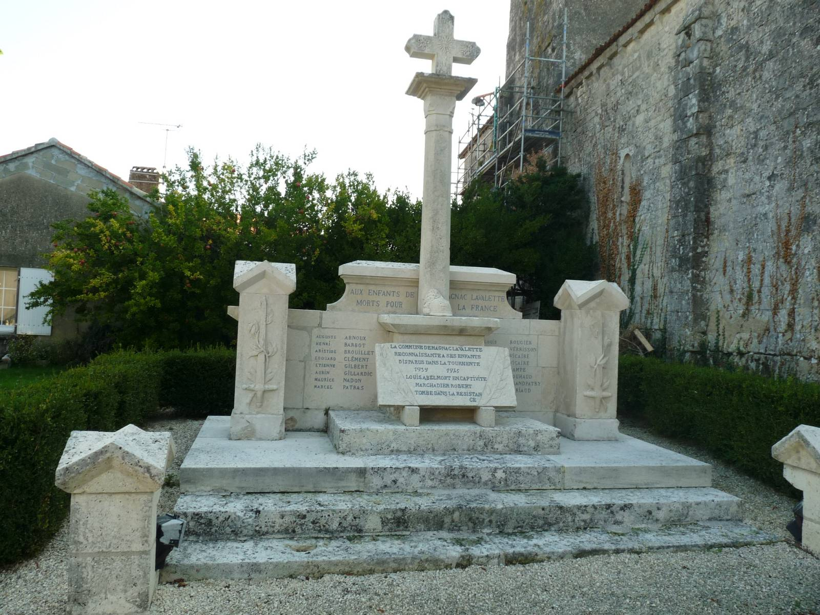 war memorial at Magnac-Lavalette, Charente, SW France